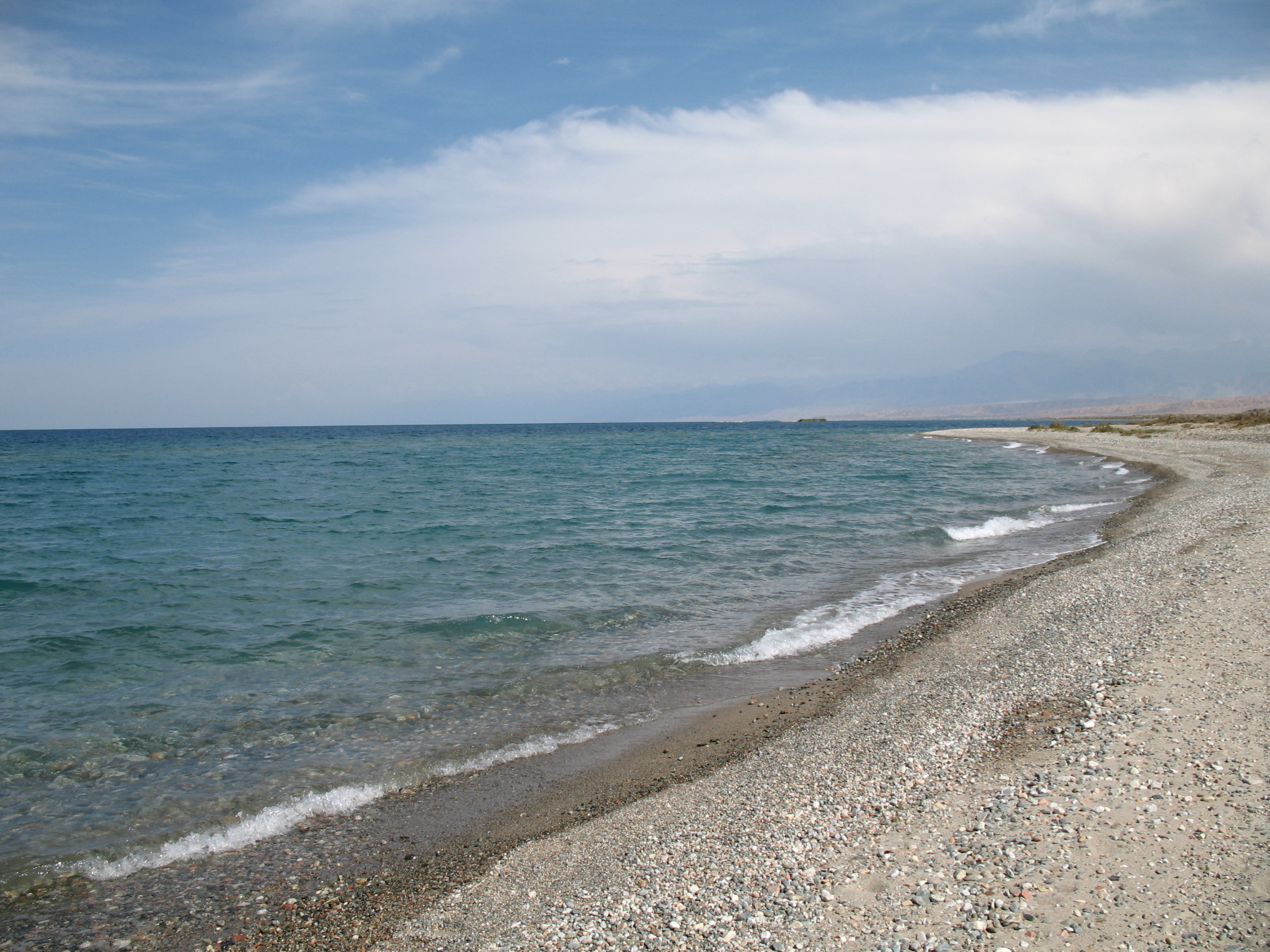 Issyk-Kul. South shore